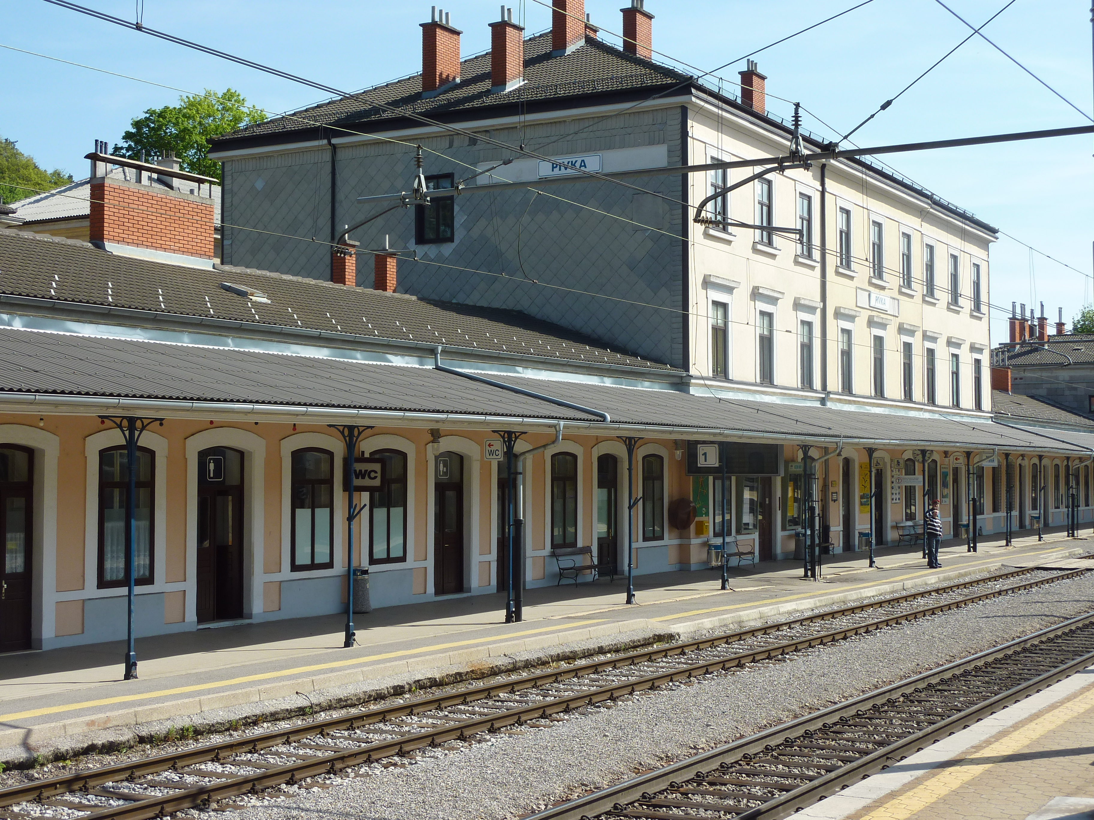 Railway station Pivka, in Slovenia